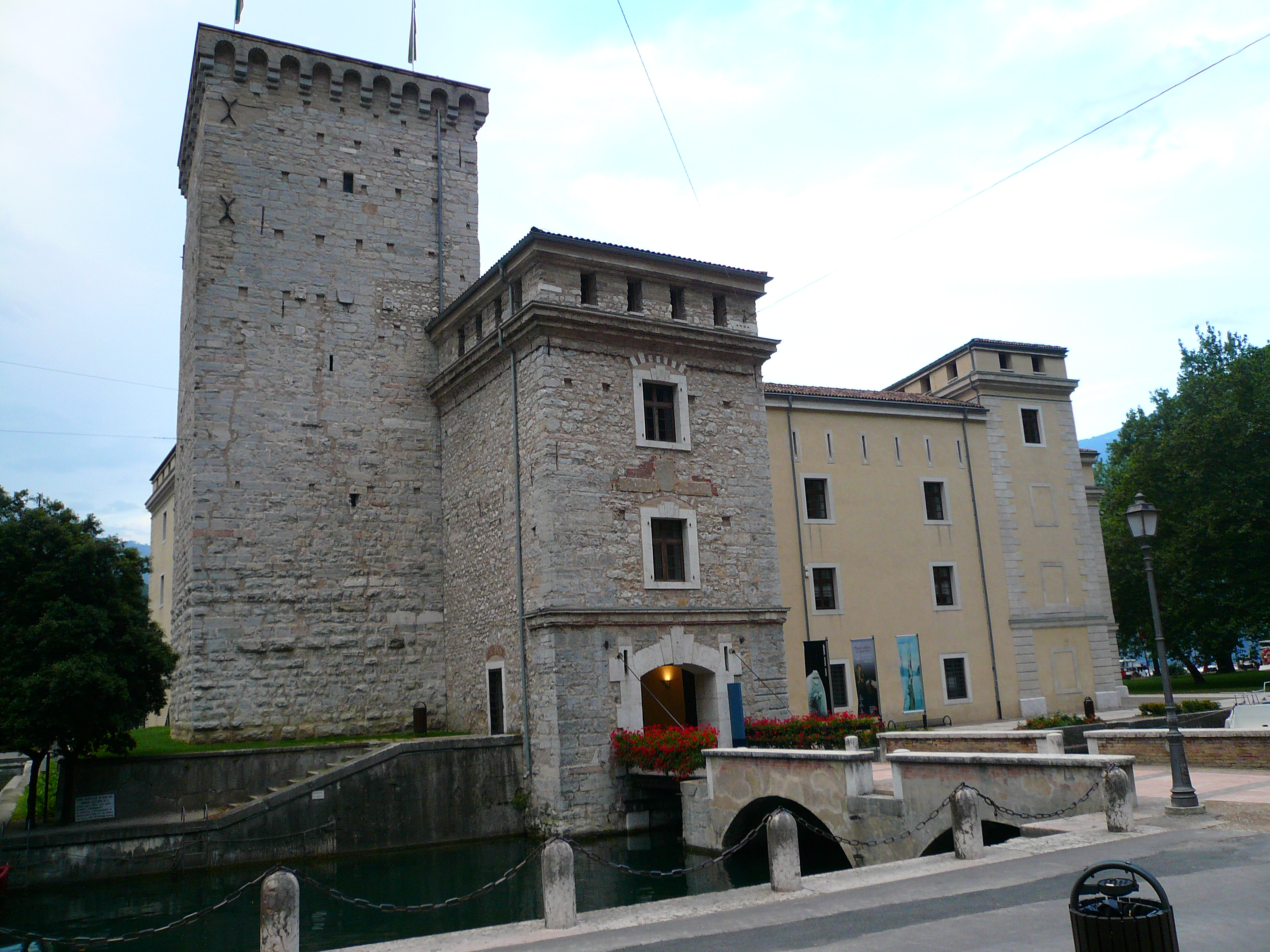 Picture of the castle of Riva del Garda shot from the town-side.